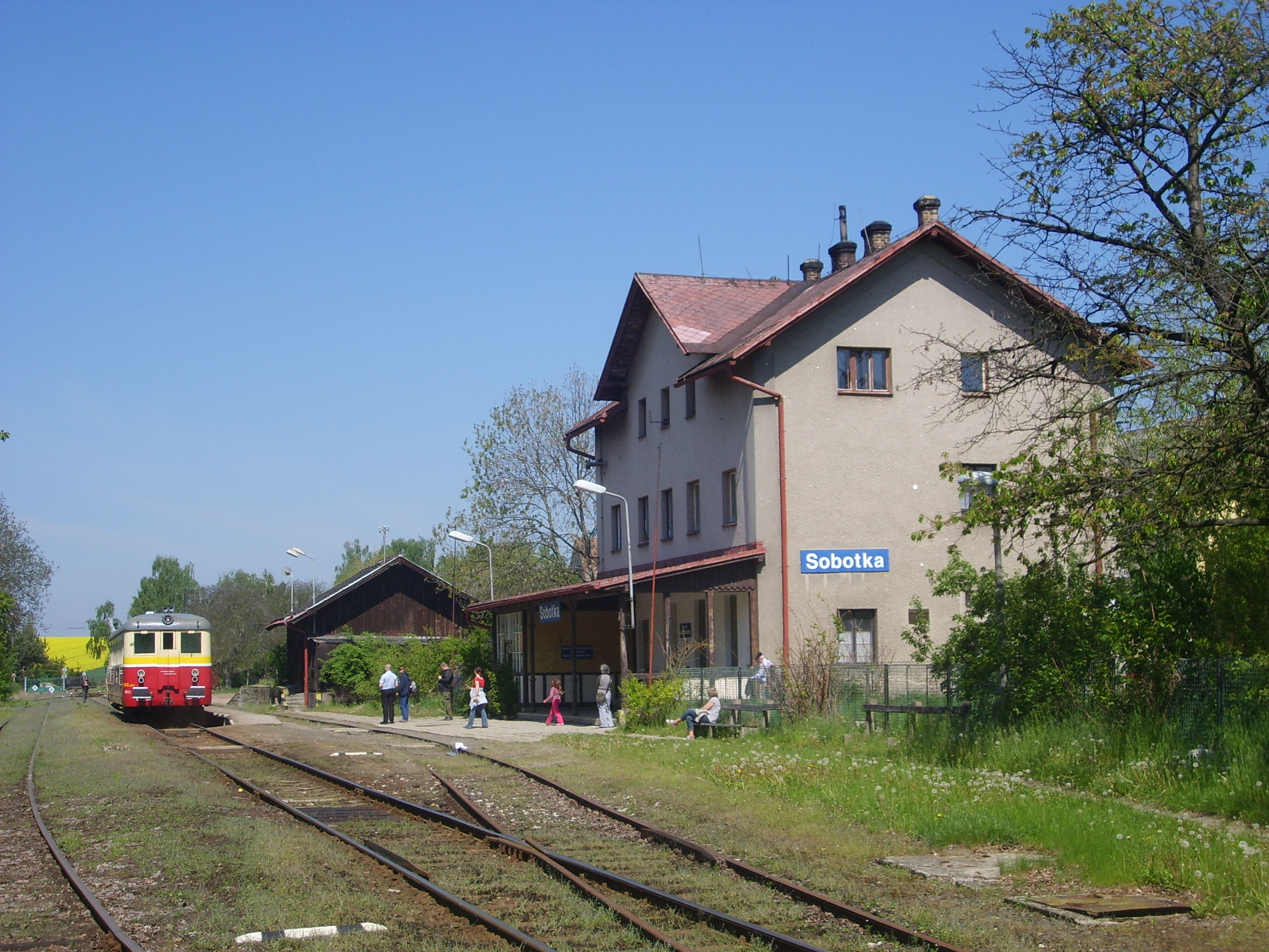 Train station in Sobotka with a diesel railcar M262.1183 of KŽC Doprava.